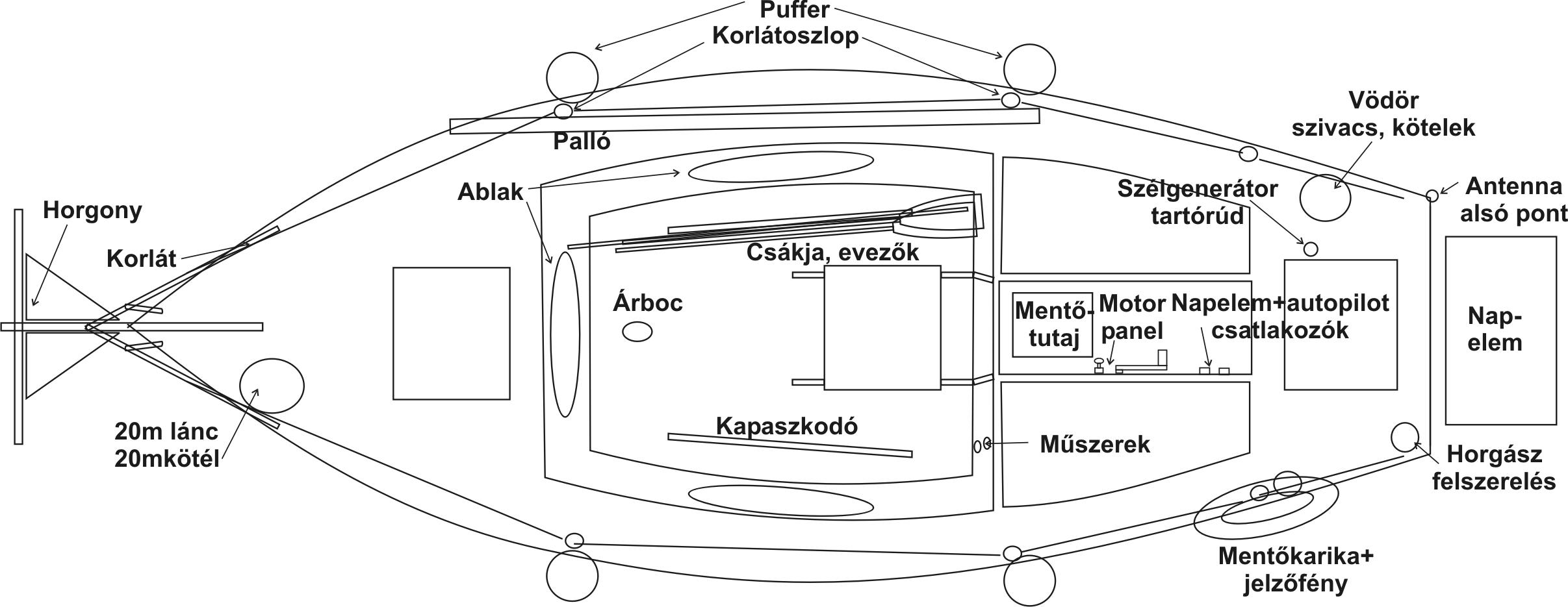 Carina sailboat and the arrangement of her equipment.